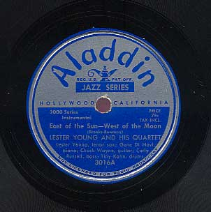 East of the Sun West of the Moon _ Lester Young Aladdin records 78s record